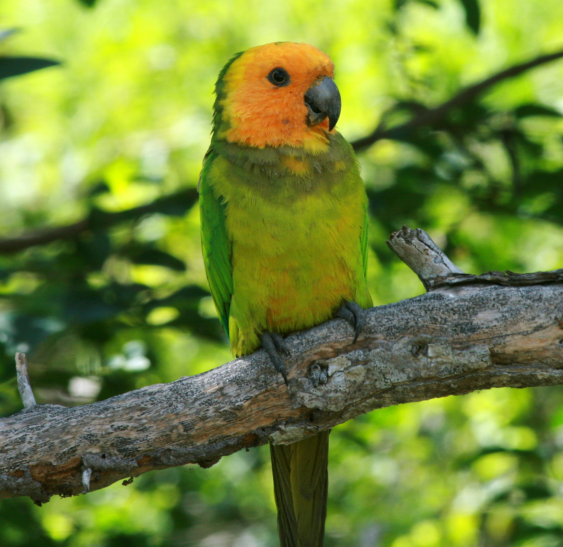 Brown-throated Parakeet (also called Caribbean Parakeet) on the island of Bonaire, Netherlands Antilles.